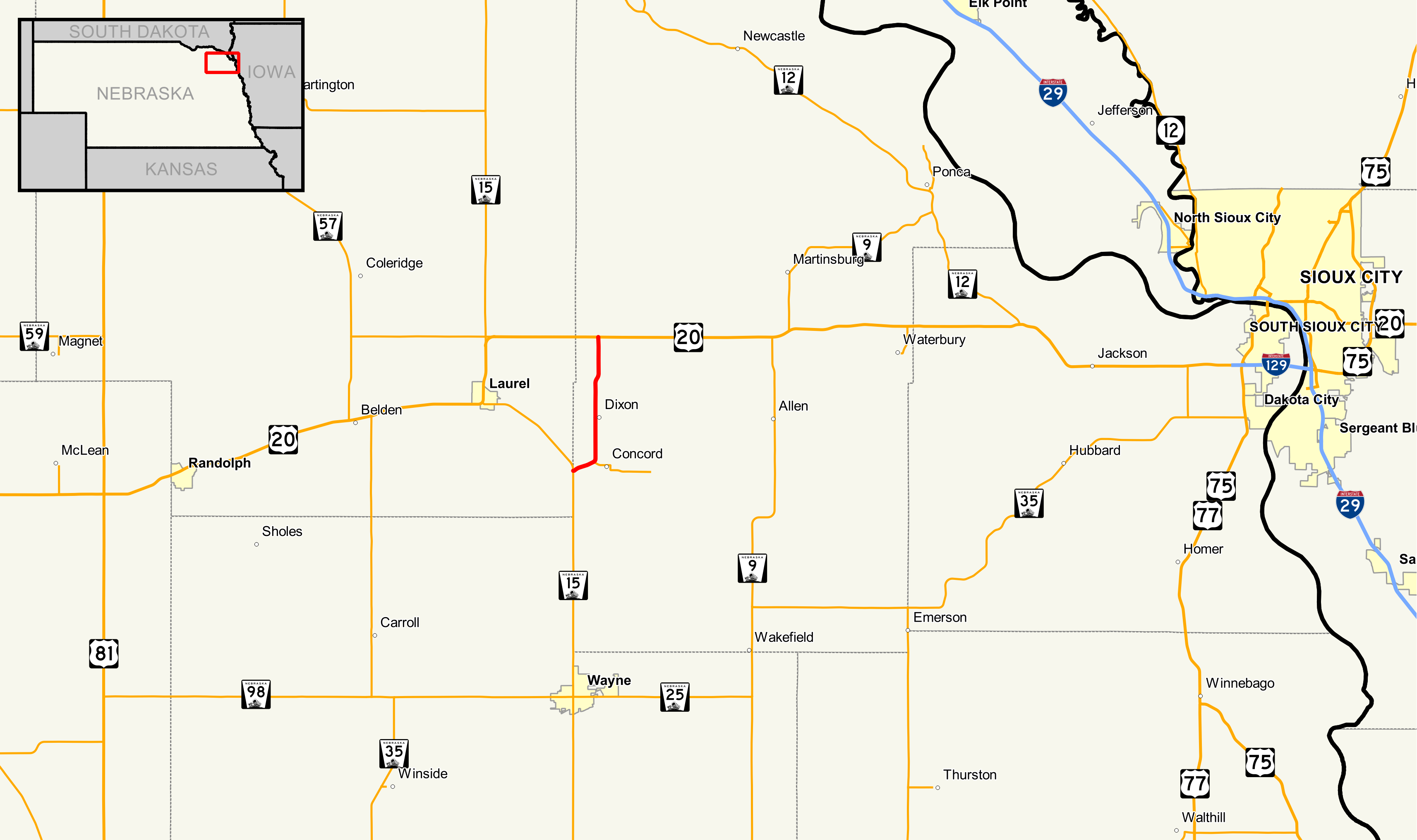 Map of Nebraska Highway 116 Data Sources: Nebraska Highways - - Dec 2016 Nebraska County Boundaries - - Dec 2016 Nebraska City Boundaries - - Dec 2016 This PNG graphic was created with QGIS